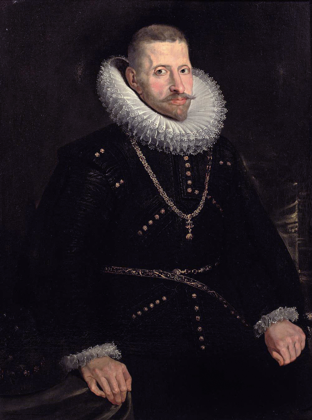 Portrait of Archduke Albrecht (1559-1621), in a gold- embroidered black costume with a white lace 'molensteenkraag' and the Order of the Golden Fleece hanging from a gold chain oil on canvas 103.4 x 78.4 cm.